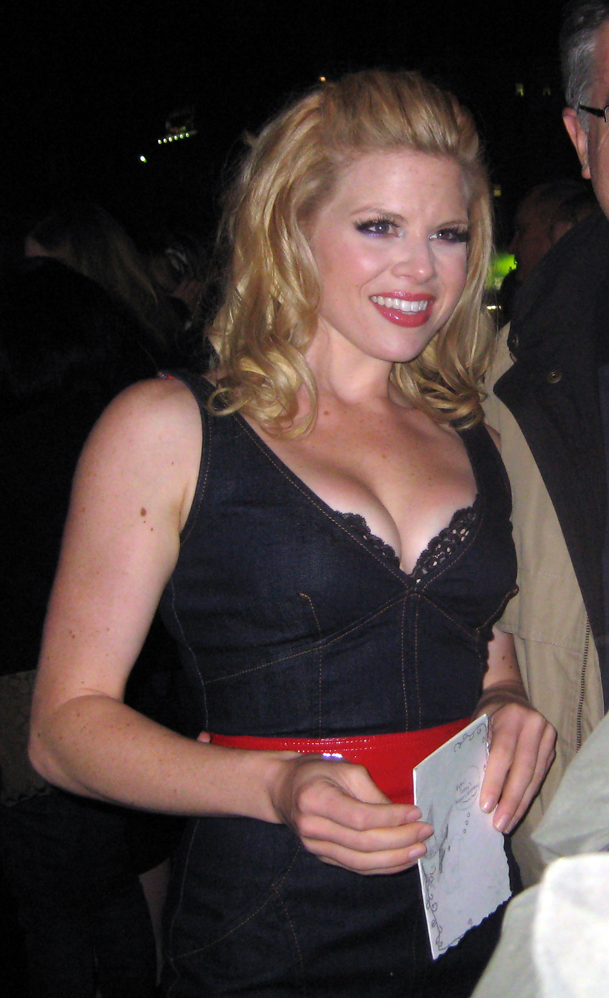 Megan Hilty at the Henry Fonda Theater